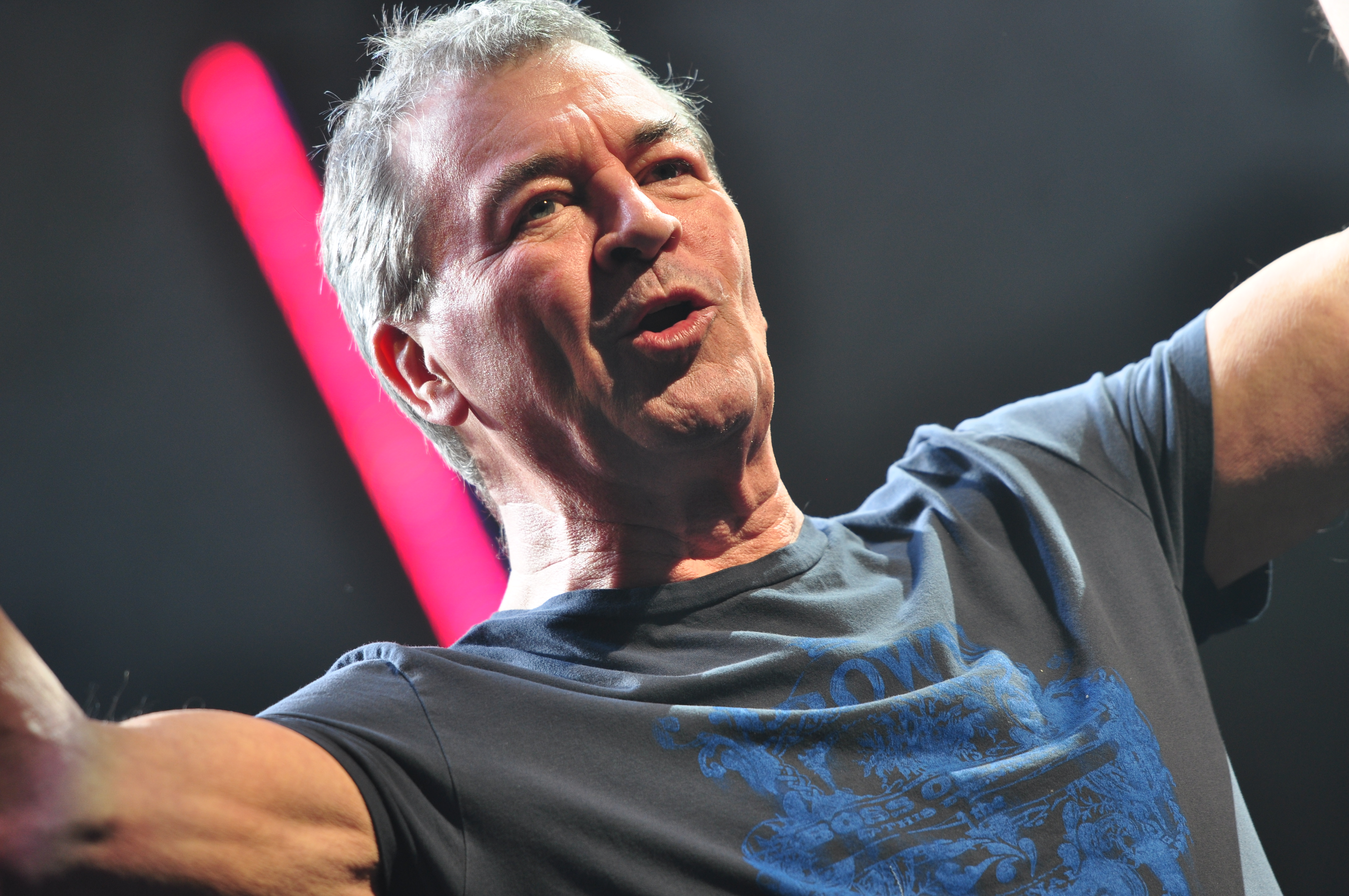 Ian Gillan live in concert with Deep Purple at the K-Rock Centre, Kingston, Ontario, Canada, February 9, 2012